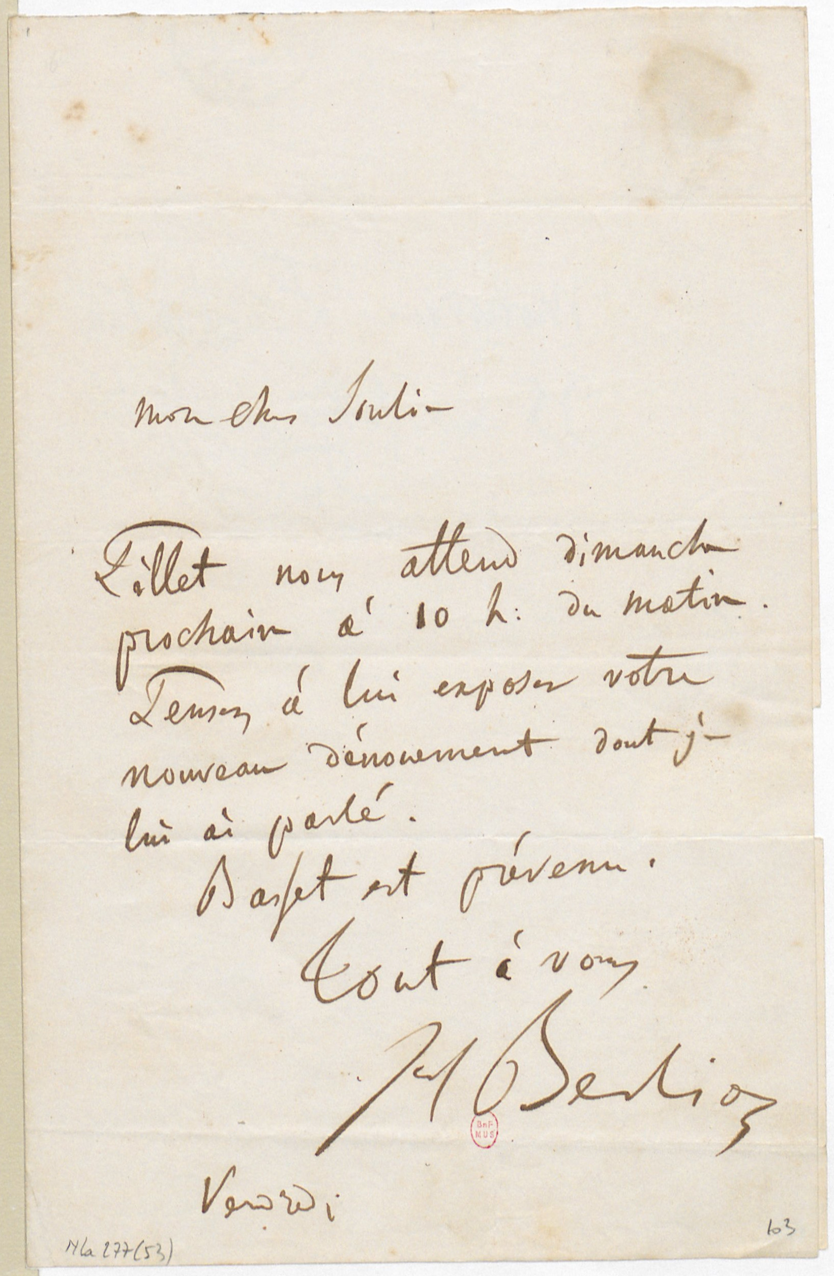 Letter from Hector Berlioz to Frédéric Soulié concerning Léon Pillet